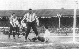 A Collision in the replay with Billy 'Fatty' Foulkes, who was 6ft 2in and weighed 22stone, a Spurs player ends up on the floor!